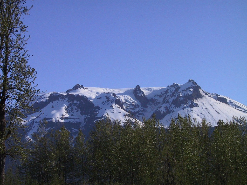 Hoodoo Mountain from the west. Taken from the Iskut River.